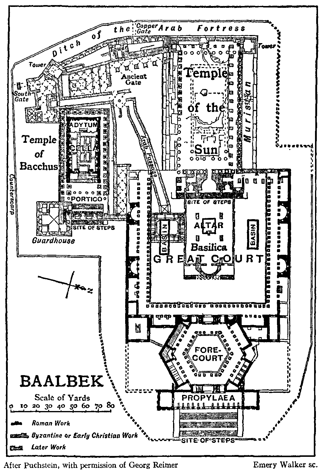 "Baalbek": An engraving of the ruins of the acropolis (Tell Baalbek) of Heliopolis in modern Baalbek, Lebanon. Facing west-southwest, with the Temple of Jupiter labelled as the Temple of the Sun.